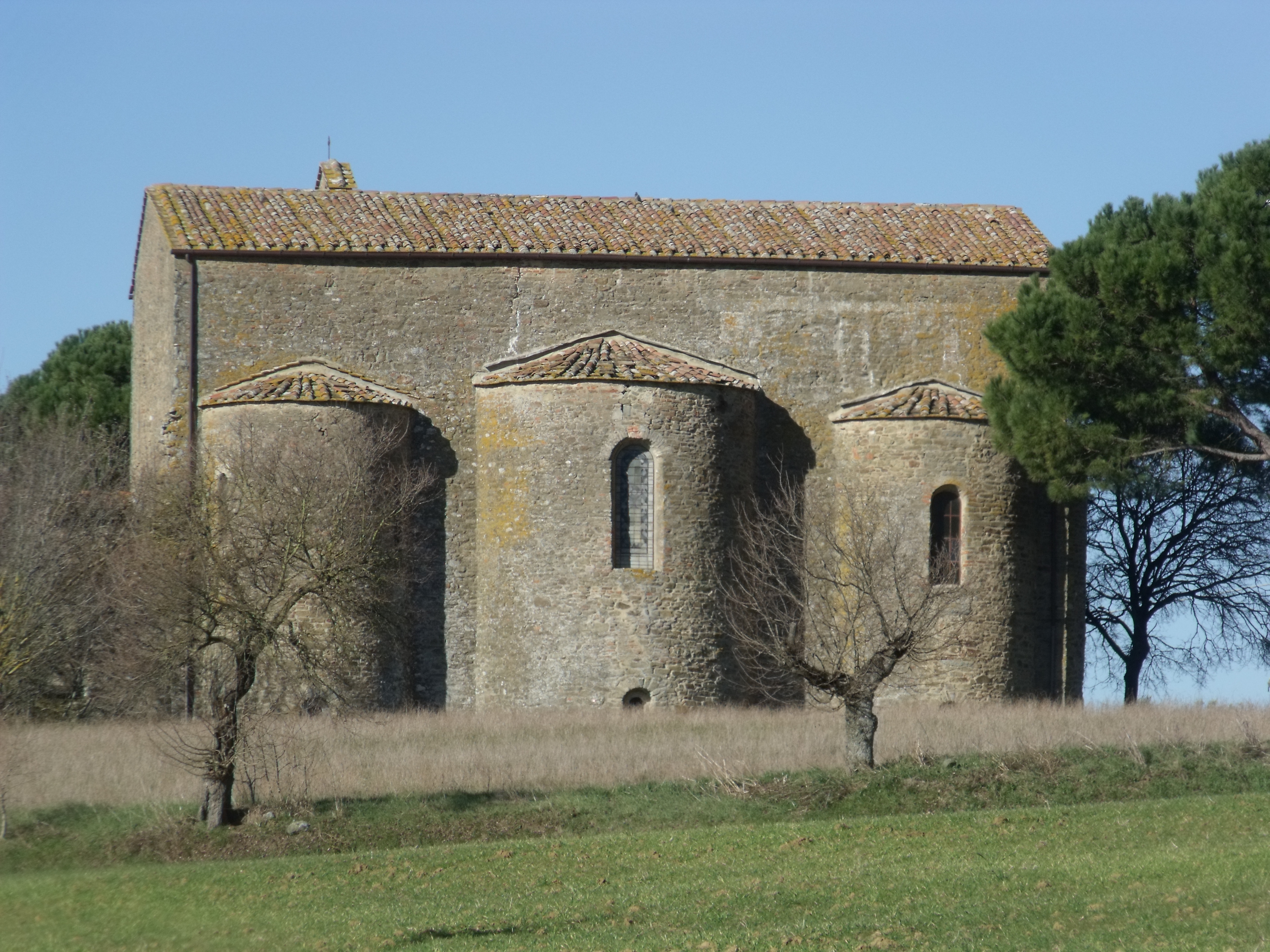 The Apse of the Abbey of Farneta (Abbazia di Farneta) in Cortona, Valdichiana, Tuscany, Italy